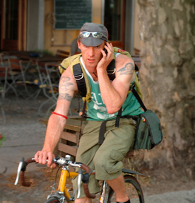 Joe Hatchiban in July 2009 as a bicycle courier in Berlin, Prenzlauer Berg